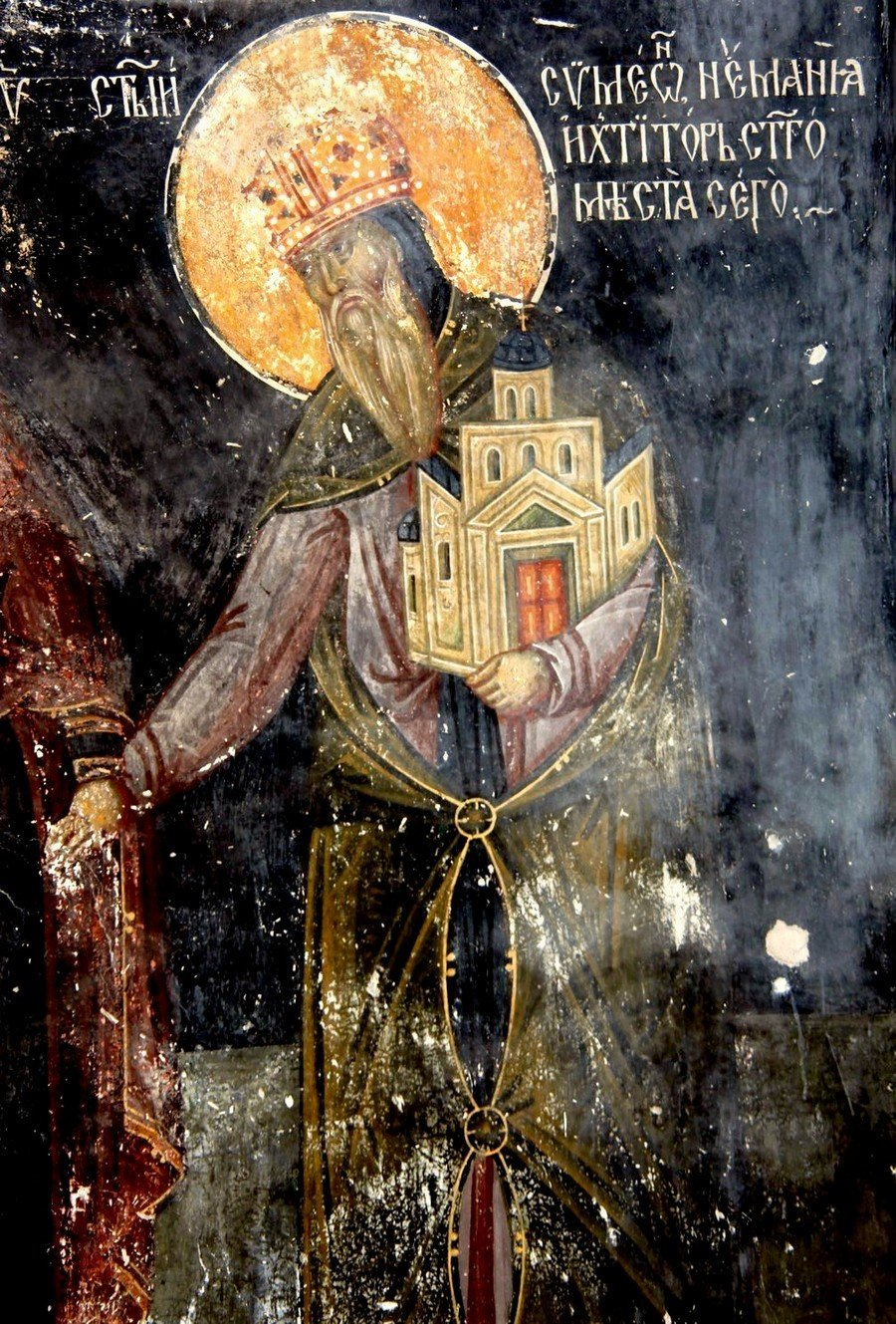 Donor's portrait of Stefan Nemanje, Great Zupan (1168-1196), in monasticsm named Symeon. Fresco in the Church of the Theotokos, Studenica Monastery (1568). The saint is shown wearing both the monarch's crown and the simple robes of a monk. He holds a model of the church he has donated.